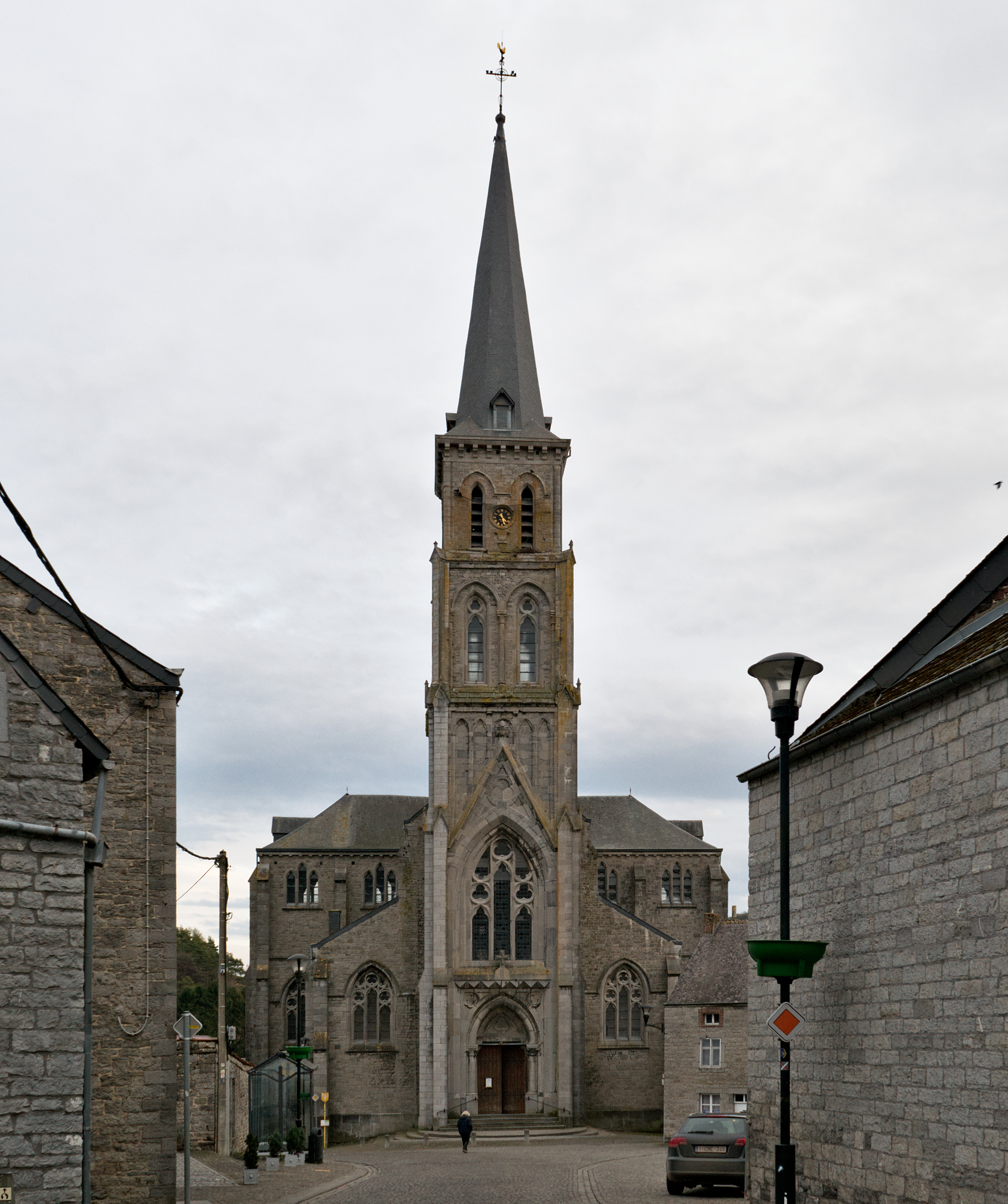 Church of Treignes in Belgium This photo of immovable heritage has been taken in the Walloon Region